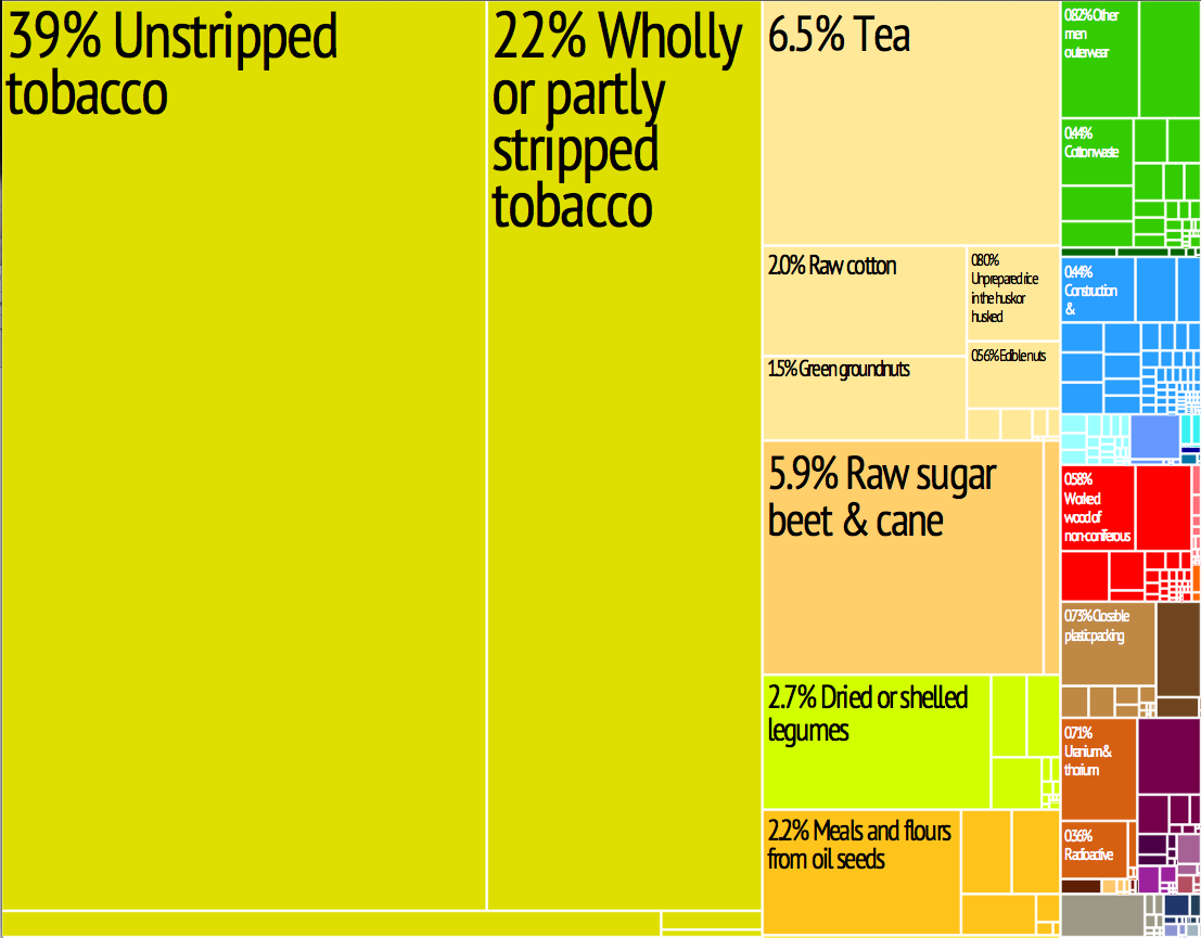 Export Trading Treemap. From MIT/Harvard Atlas of Economic Complexity